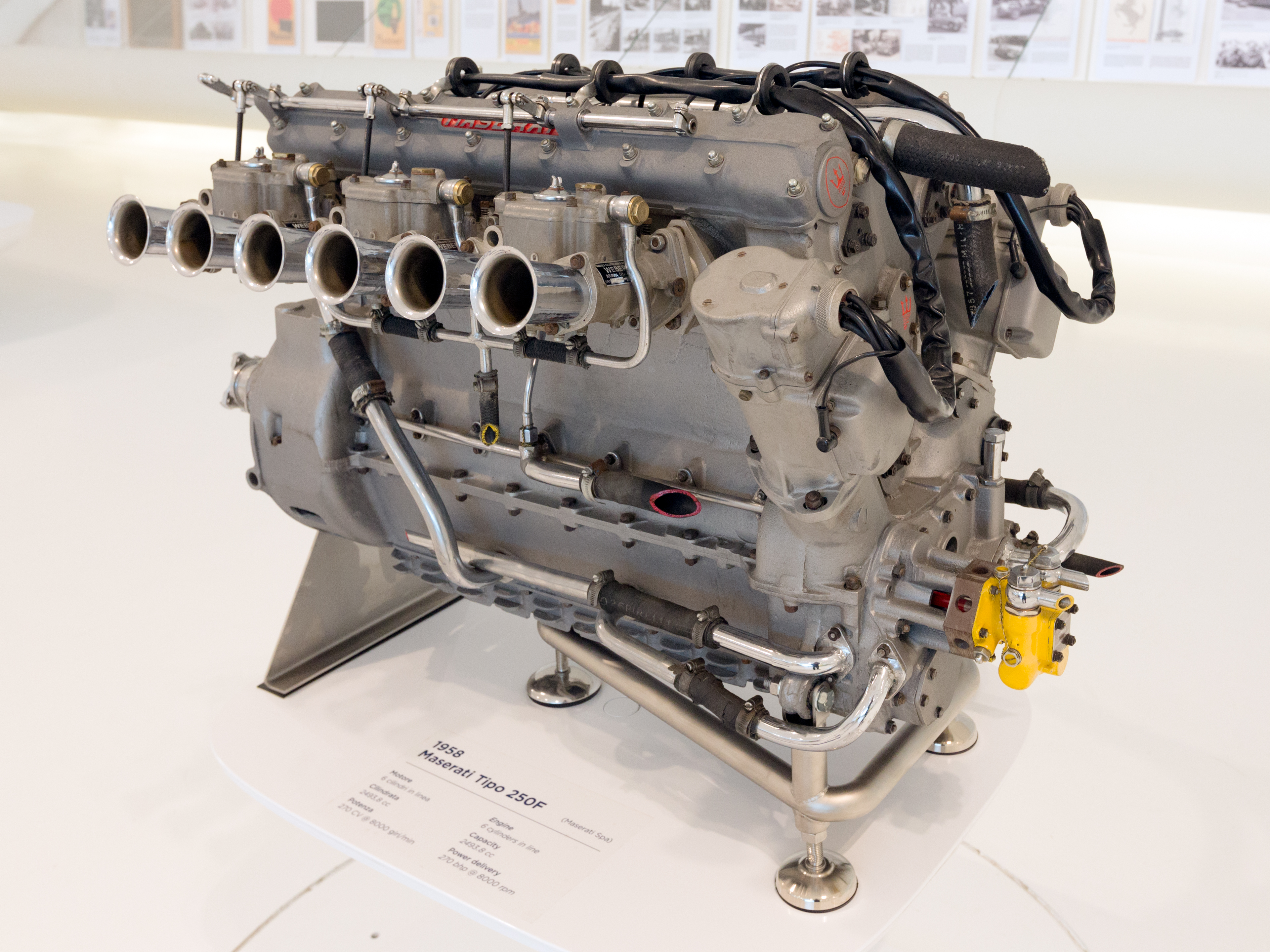 1958 Maserati Tipo 250F engine